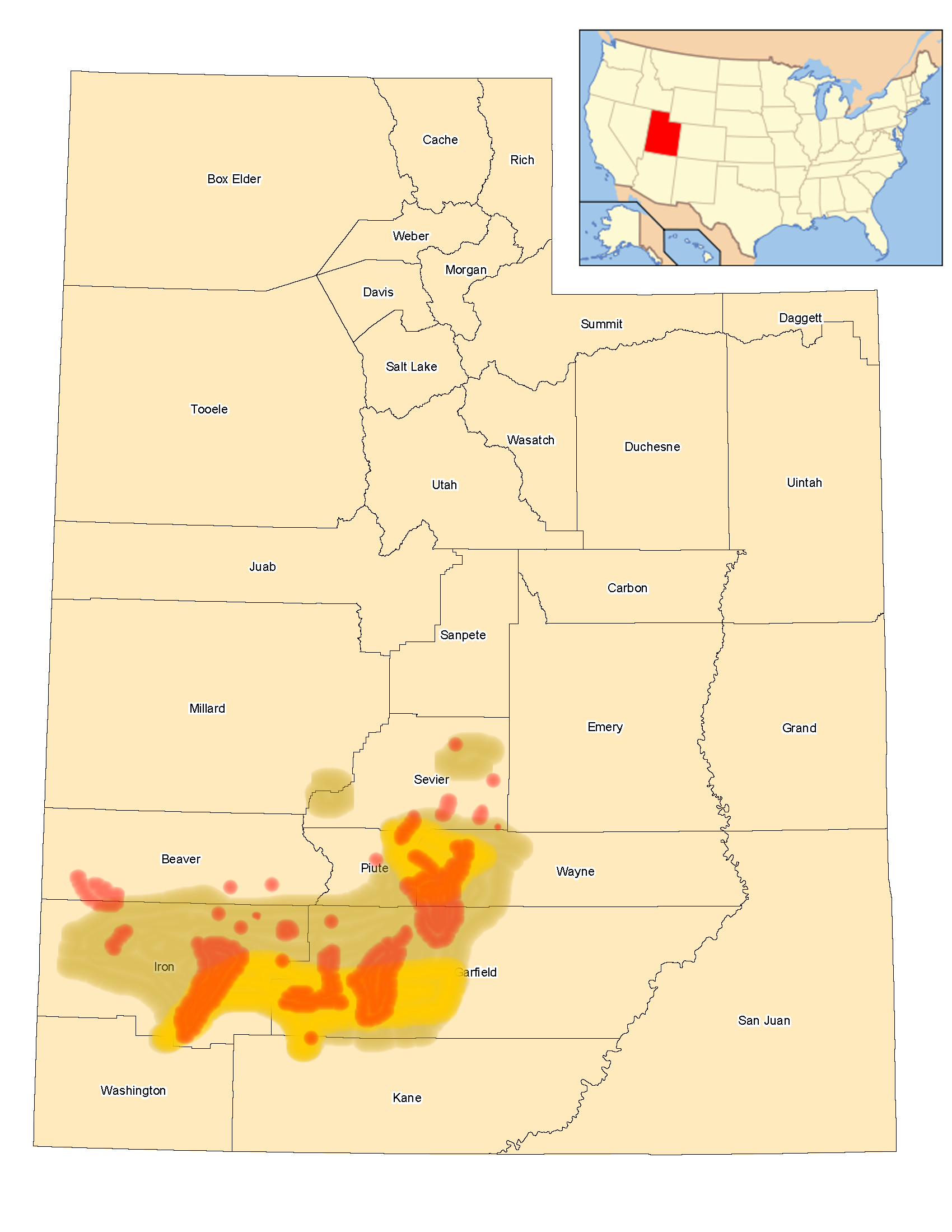 Rodent distribution map of Cynomys parvidens in southwestern Utah.